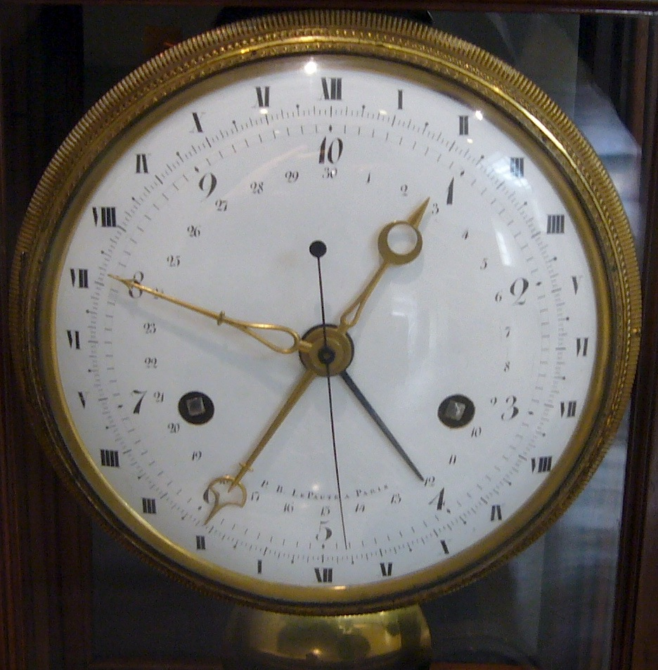 A clock made in Revolutionary France, showing the 10-hour decimal clock.